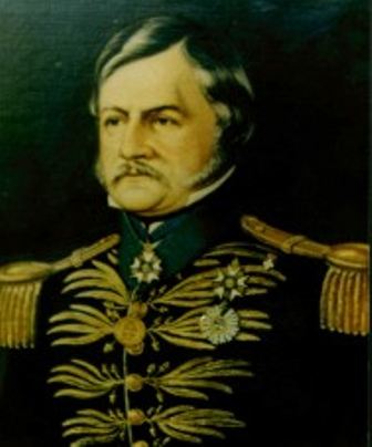 Portrait of General Bento Manuel Ribeiro (1783–1855)